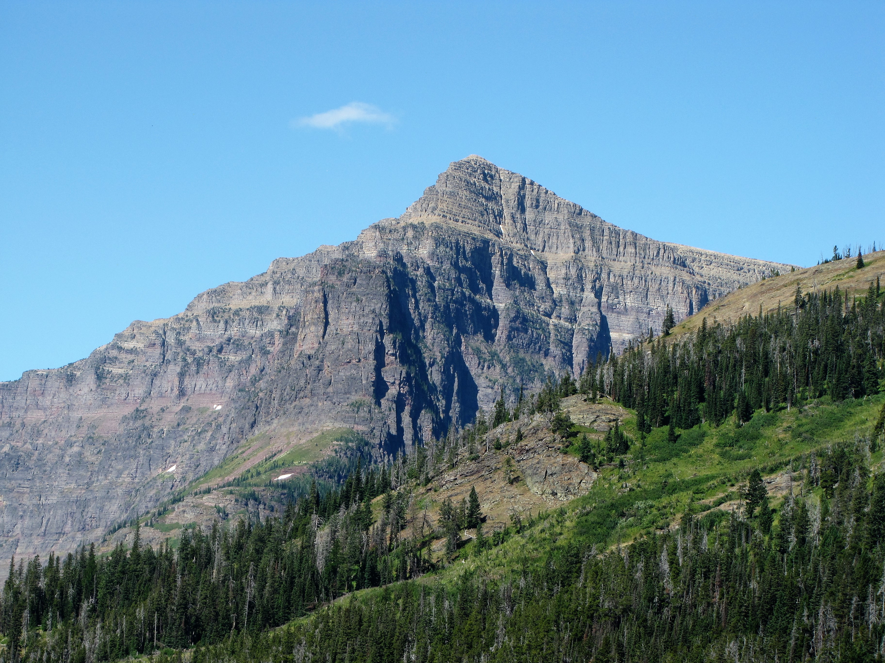 Mount Helen in Two Medicine region of Glacier National Park.